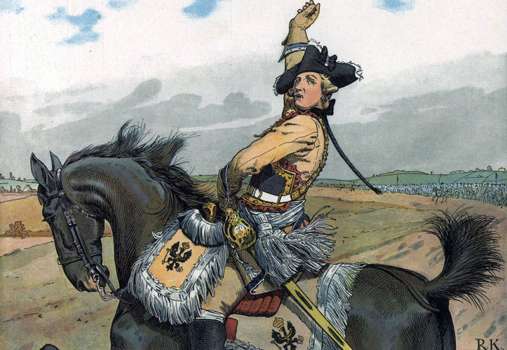 Major General von Seydlitz throws his pipe in the air as he leads his Prussian cavalry to the attack at the Battle of Rossbach, picture by Richard Knötel.